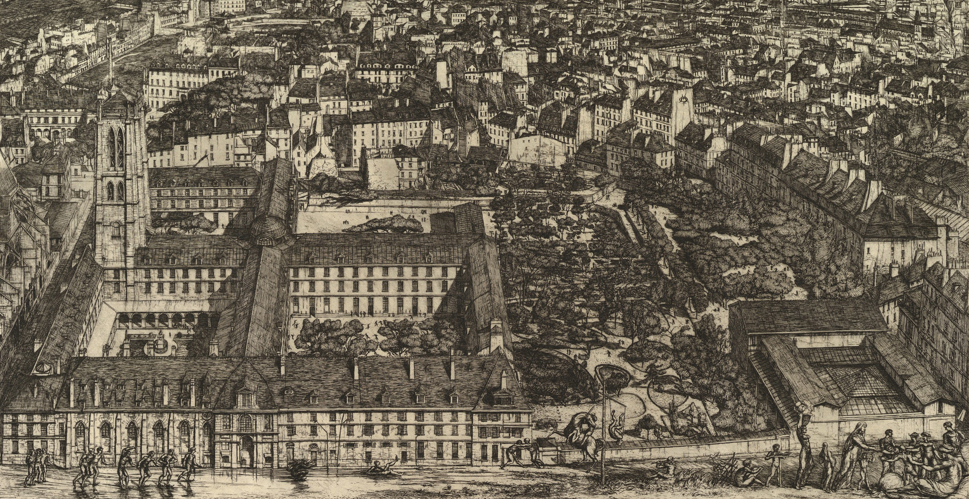 Lycée Henri-IV, Paris, France.